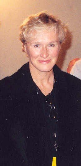 Glenn Close at the 1997 Emmy Awardsglennclose